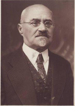 Russian historian Nikolai Bubnov (1858-1943)